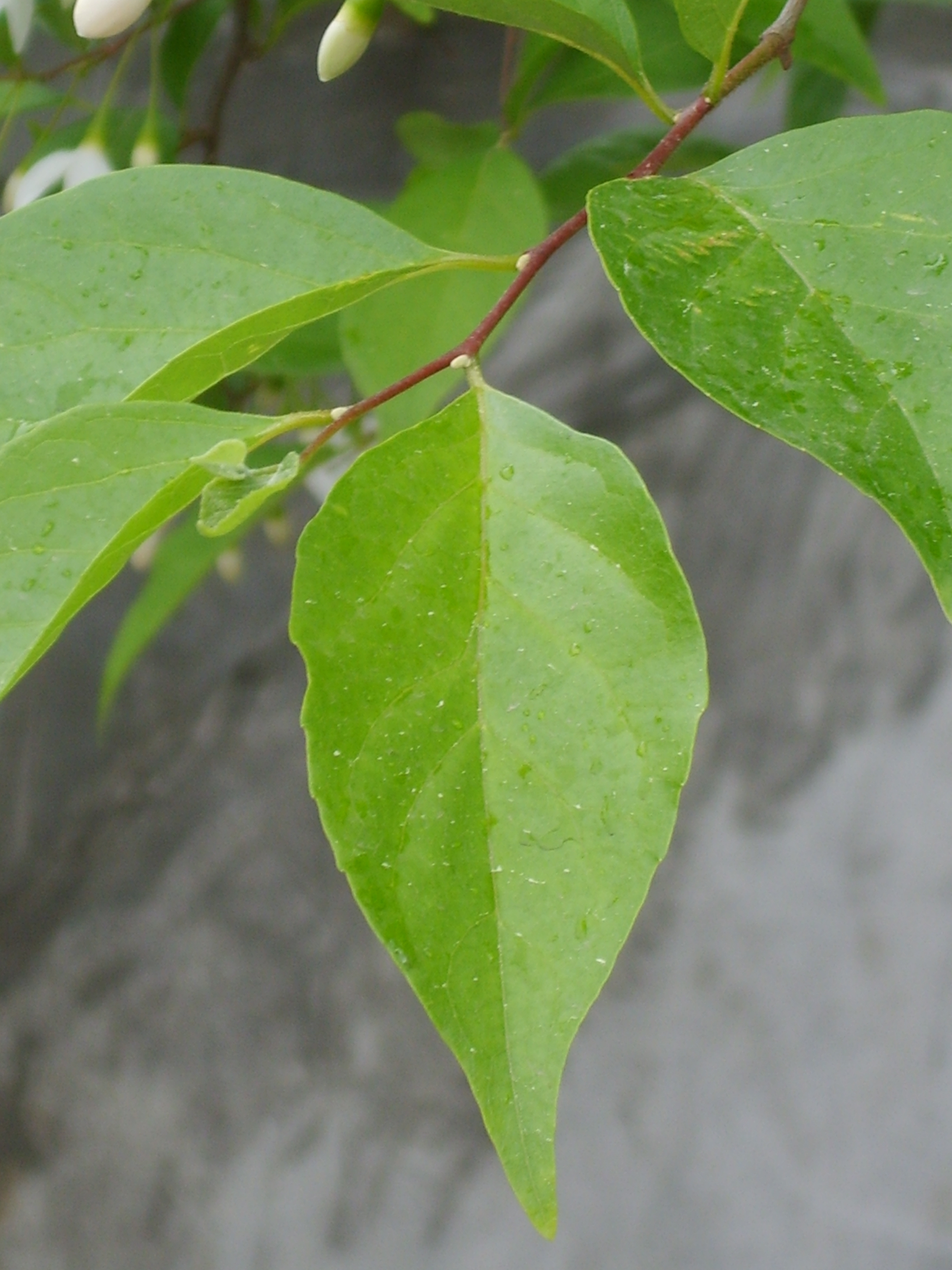 Styrax japonicus in Bupyung, Korea